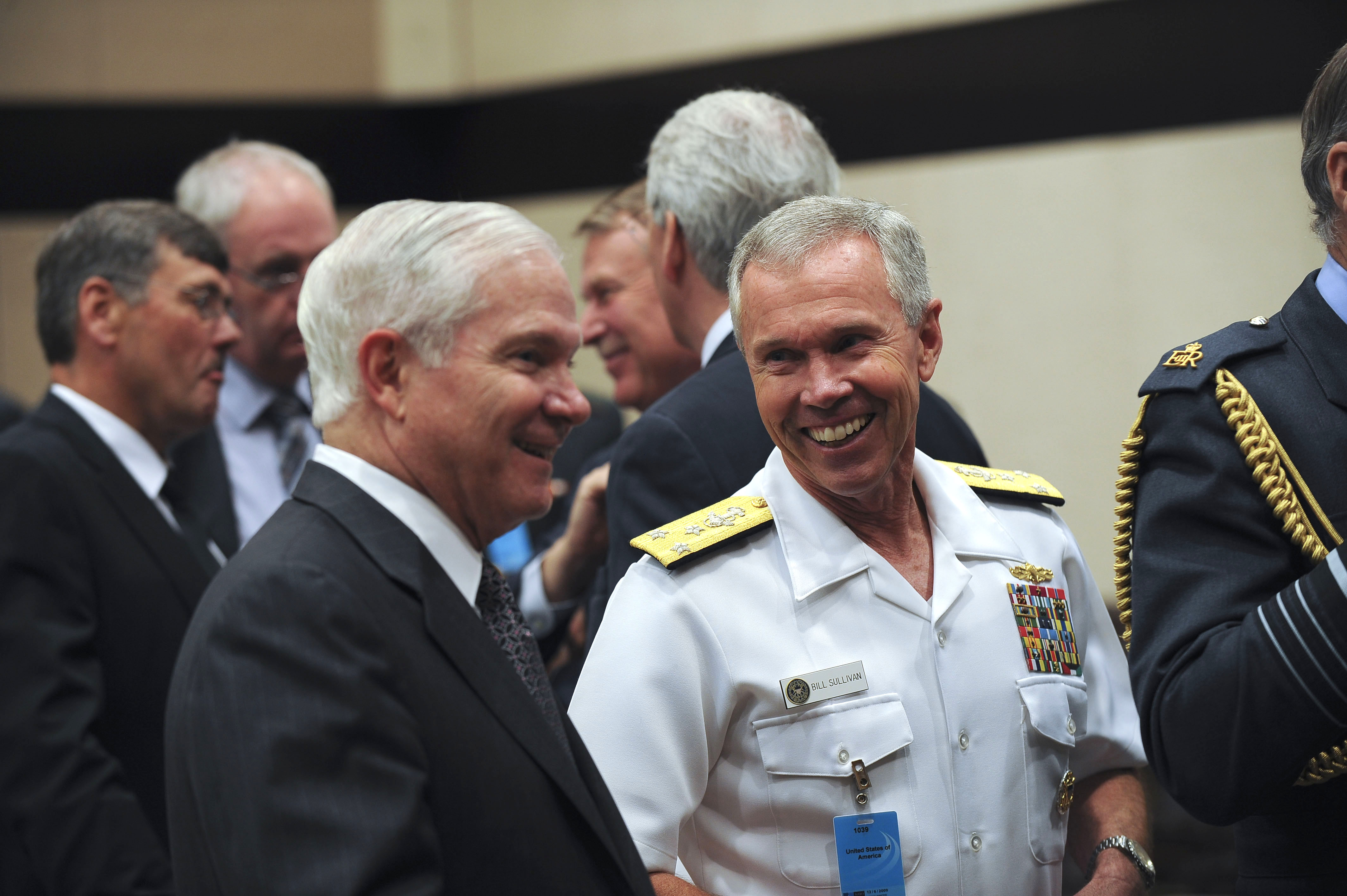 U.S. Defense Secretary Robert M. Gates talks with U.S. Navy Vice Admiral William D. Sullivan, the U.S. military representative to NATO at a defense ministers meeting in Brussels, Belgium, June 12, 2009.